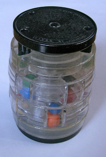 Nintendo tumbler puzzle known as "Ten Billion Barrels", developed by Gunpei Yokoi. 2006-09-03投稿者KENPEIが撮影。--Kenpei 2006年9月5日 (火) 14:02 (UTC)